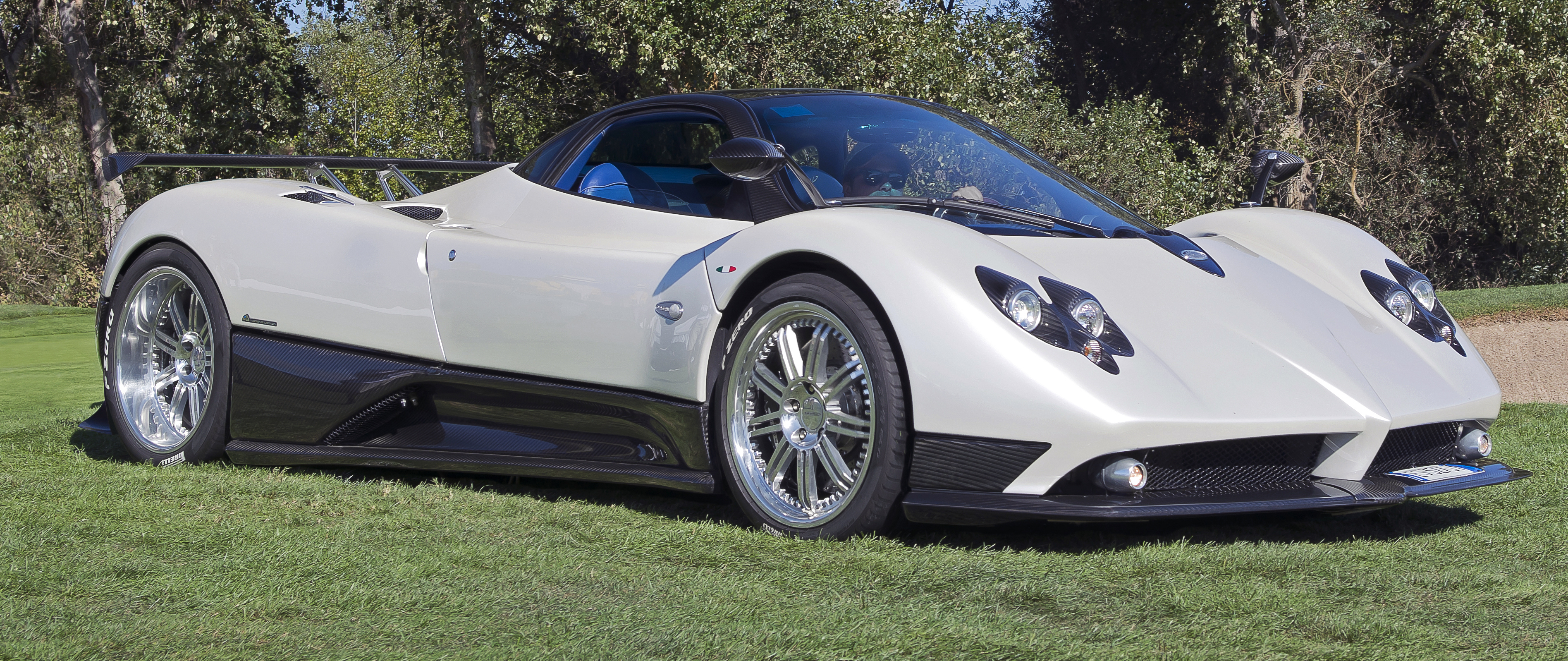 Pagani Zonda F owned by Horacio Pagani leaving The Quail event in Carmel Valley during Monterey Car Week 2014. (cc) Creative Commons Personal and Commercial with Attribution. If you use this photo make sure you source with a link back to my site at